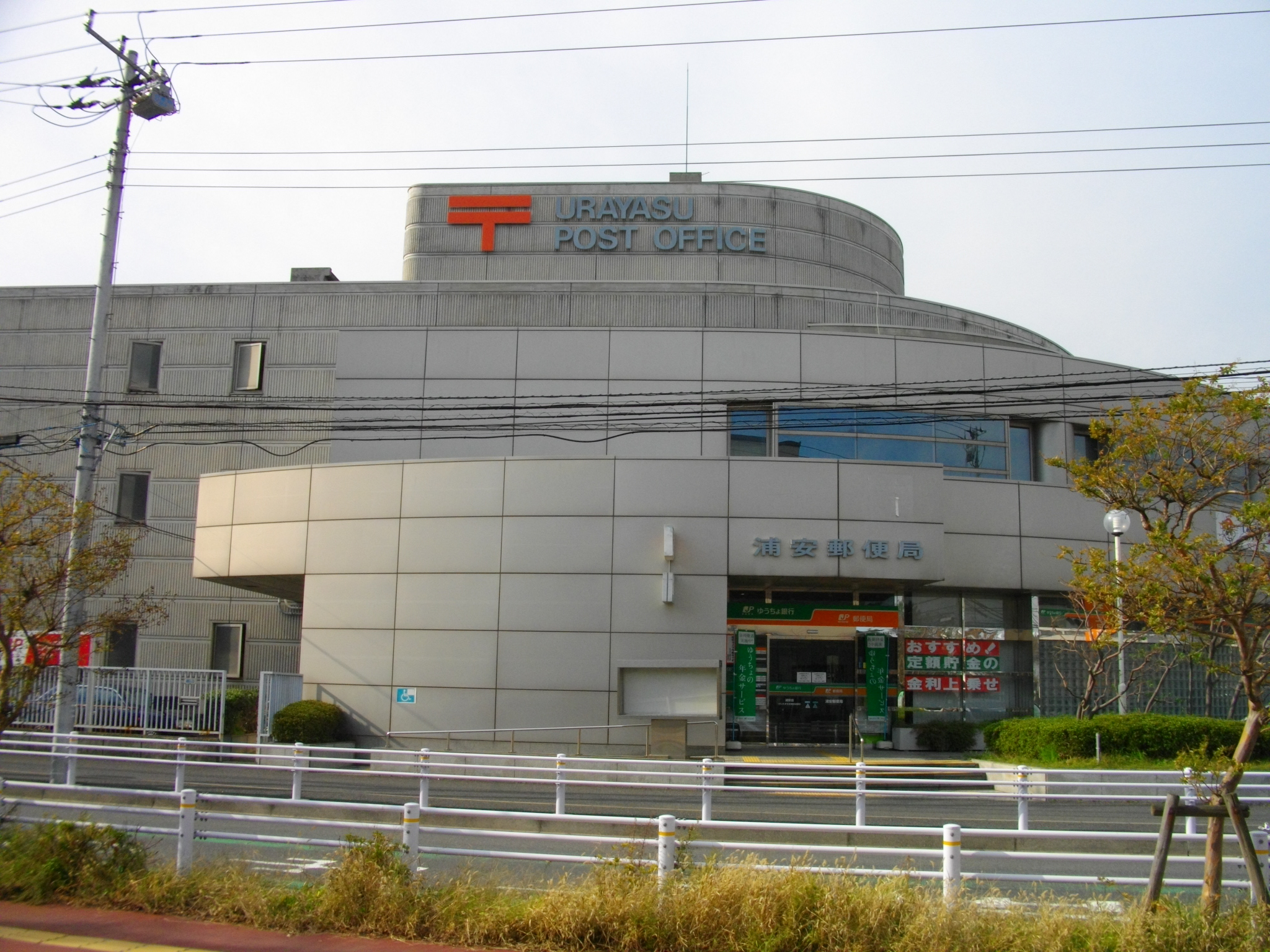 Urayasu Post Office